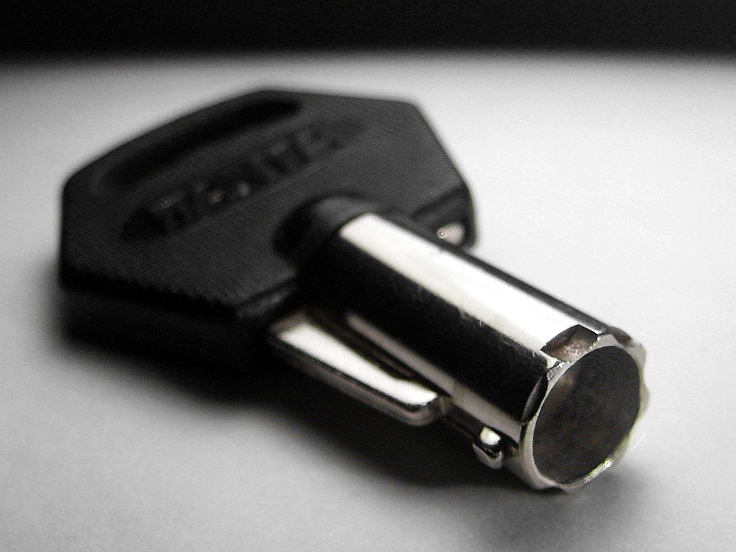 A tubular key.